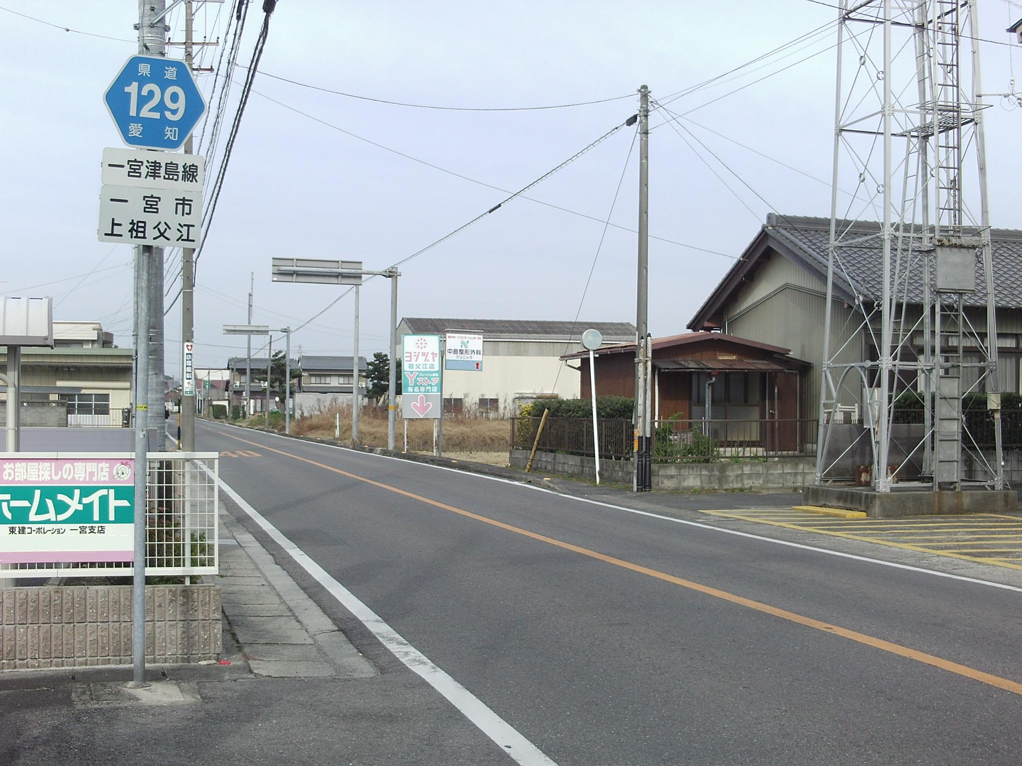 Aichi prefectural road No.129 in Kamisobue, Ichinomiya, Aichi.